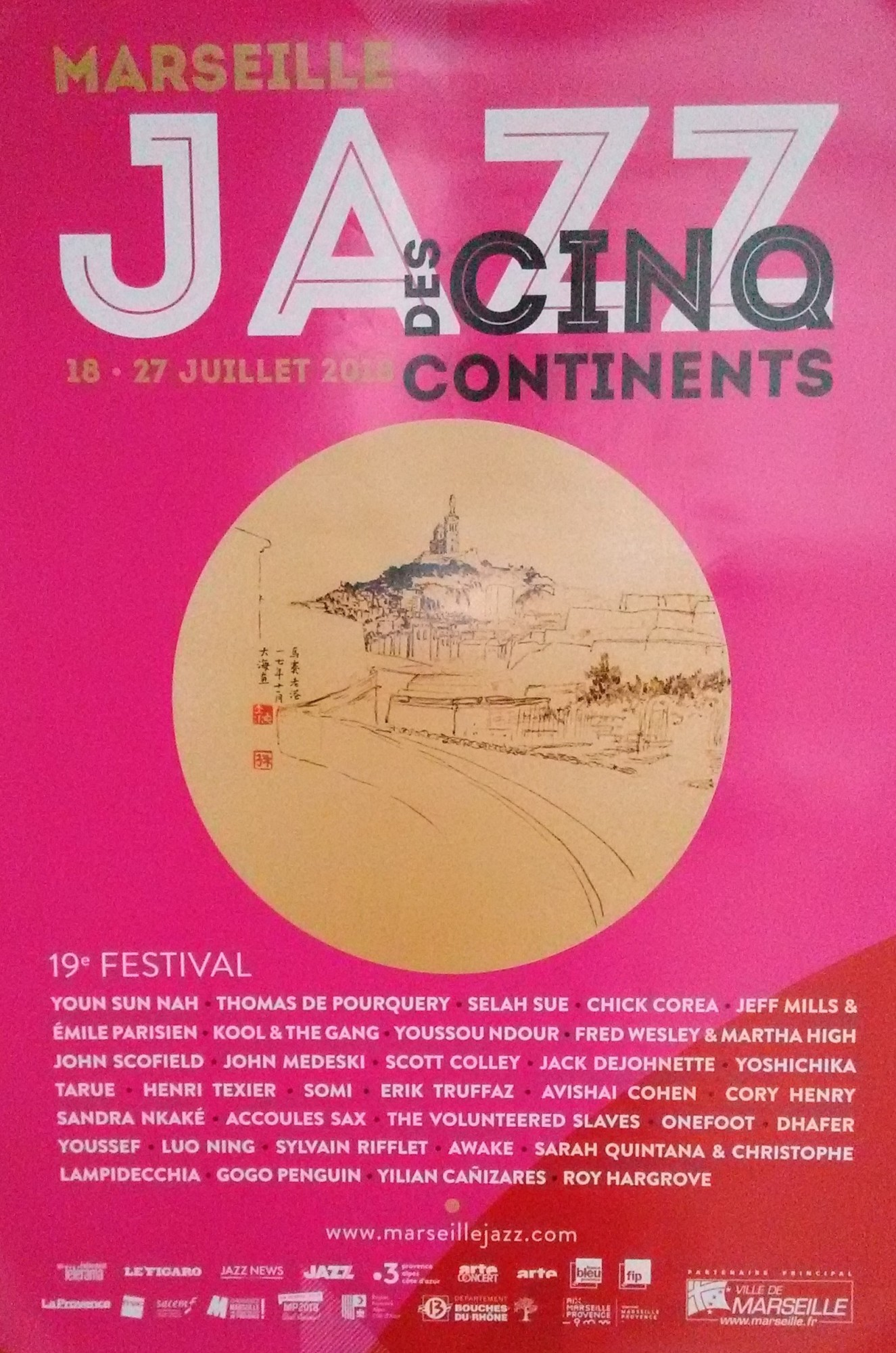 Festival Jazz des cinq continents 2018